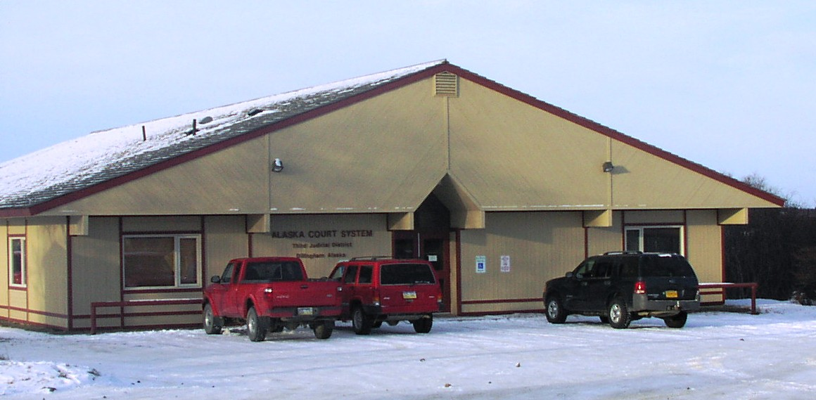 The Alaska Court building in Dillingham, owned by A Native village corporation, will see energy savings of up to $20,000 a year following installation of a wind turbine funded through USDA’s Rural Energy for America Program.